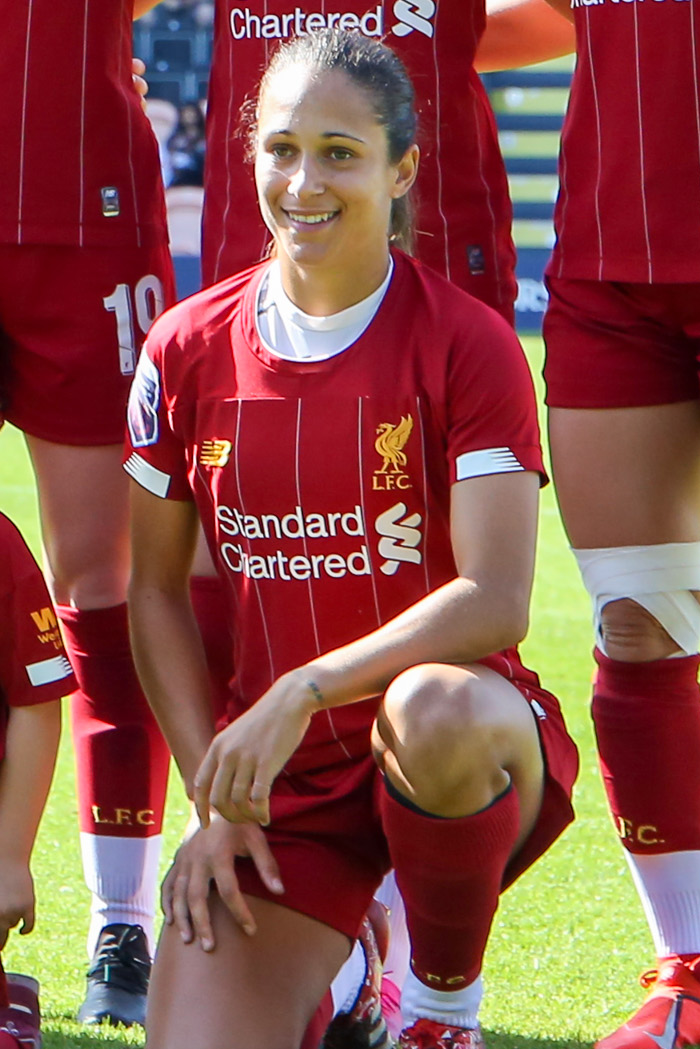 2019–20 FA WSL: Tottenham Hotspur FC Women v Liverpool FC Women, 15 September 2019 – Liverpool starting line-up.